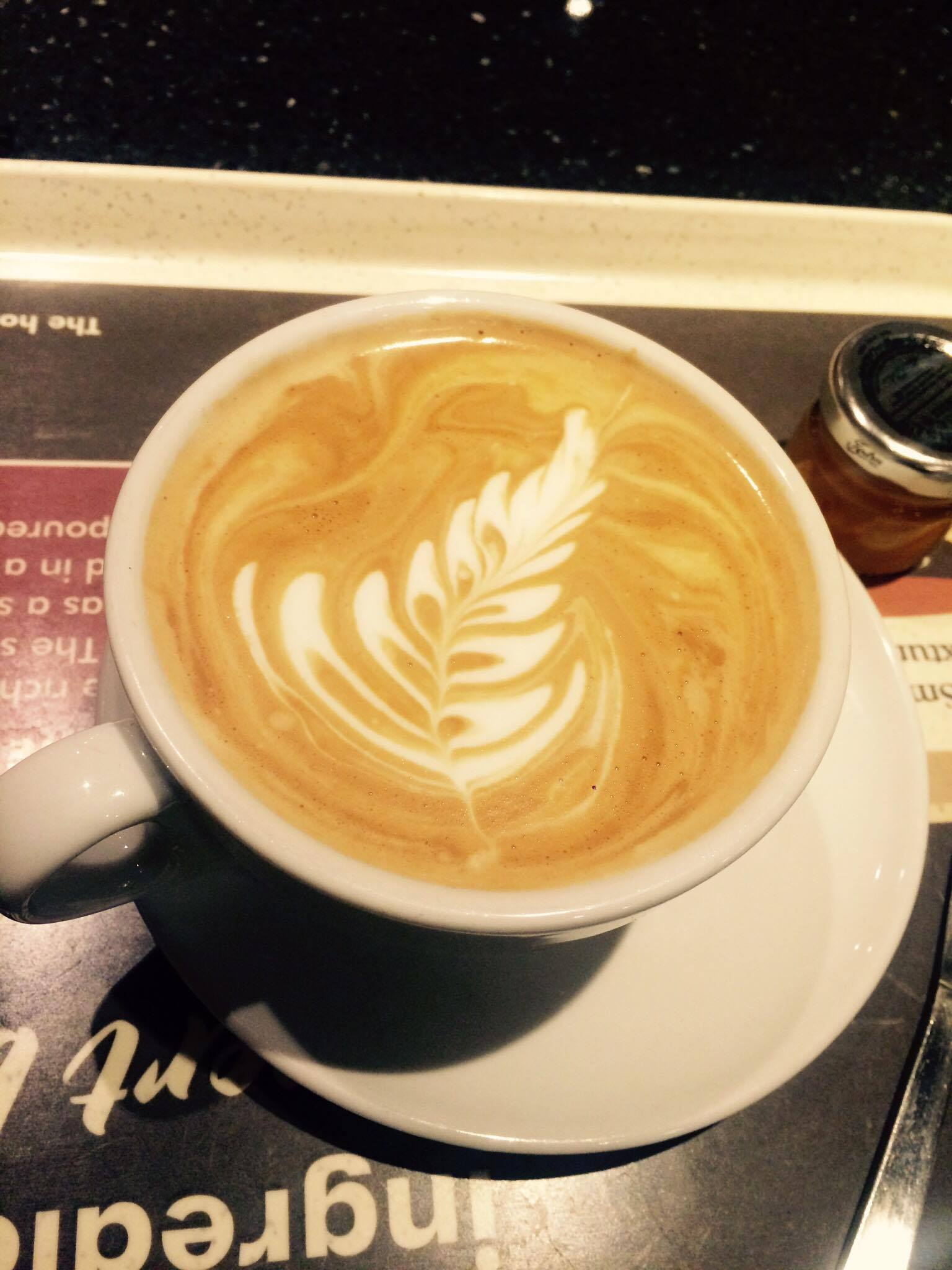 A feather pattern on a flat white coffee by a Costa Coffee barista